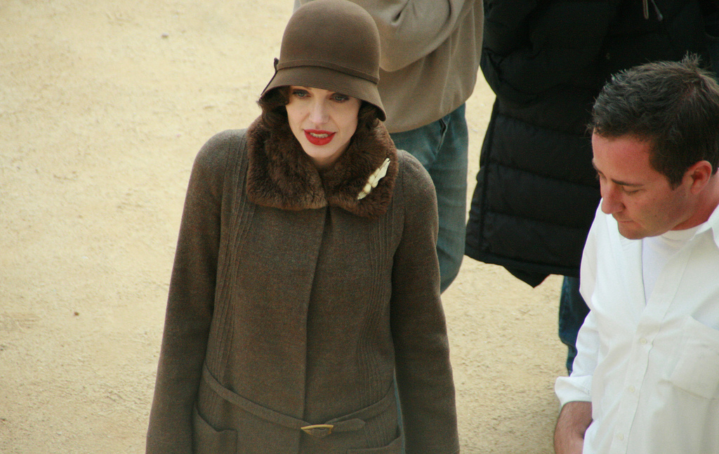 Angelina Jolie on the set of "Changeling".